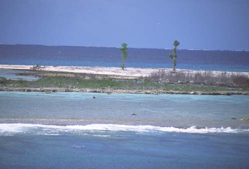 A small islet, Maupihaa (Mopelia) Atoll, Society Islands, French Polynesia Original field notes: Sooty Terns, Masked Boobies are two of the common seabirds there. It is very windblown and exposed to high seas, so often the birds have their breeding curtailed.